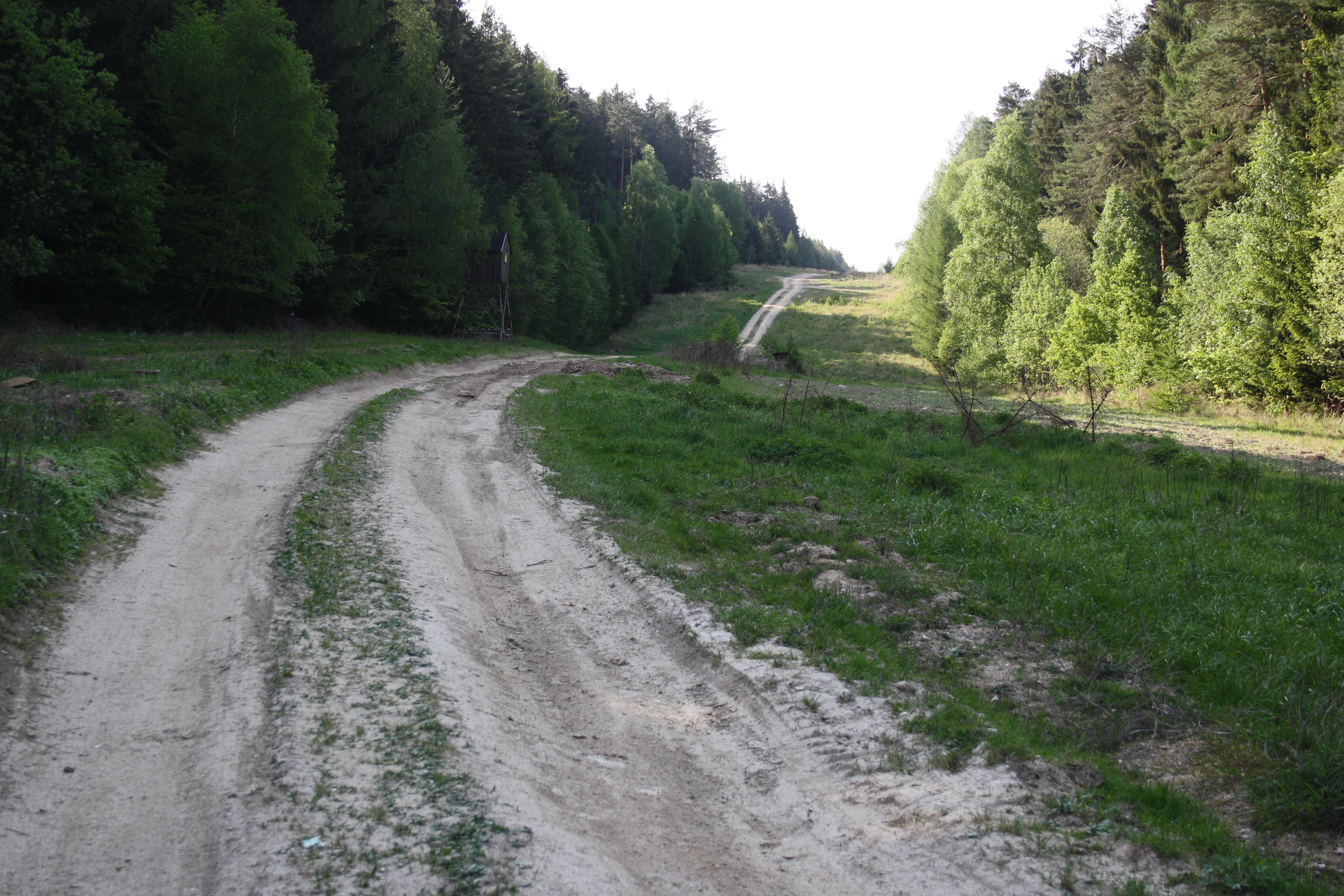 Forest path with underground petroleum pipeline Družba in the Czech Republic.